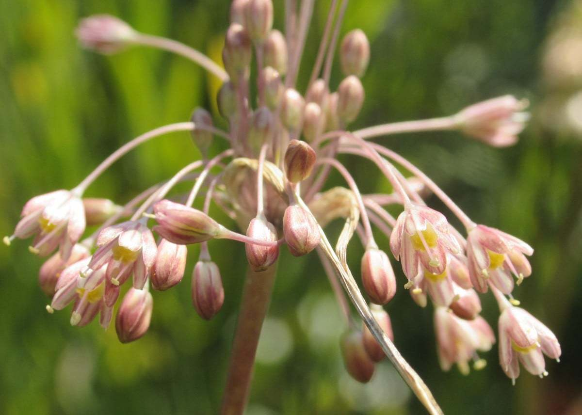 Allium paniculatum flower